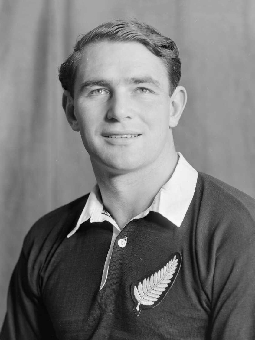 Photograph of rugby player Mark Irwin, taken by Crown Studio Ltd of Wellington.